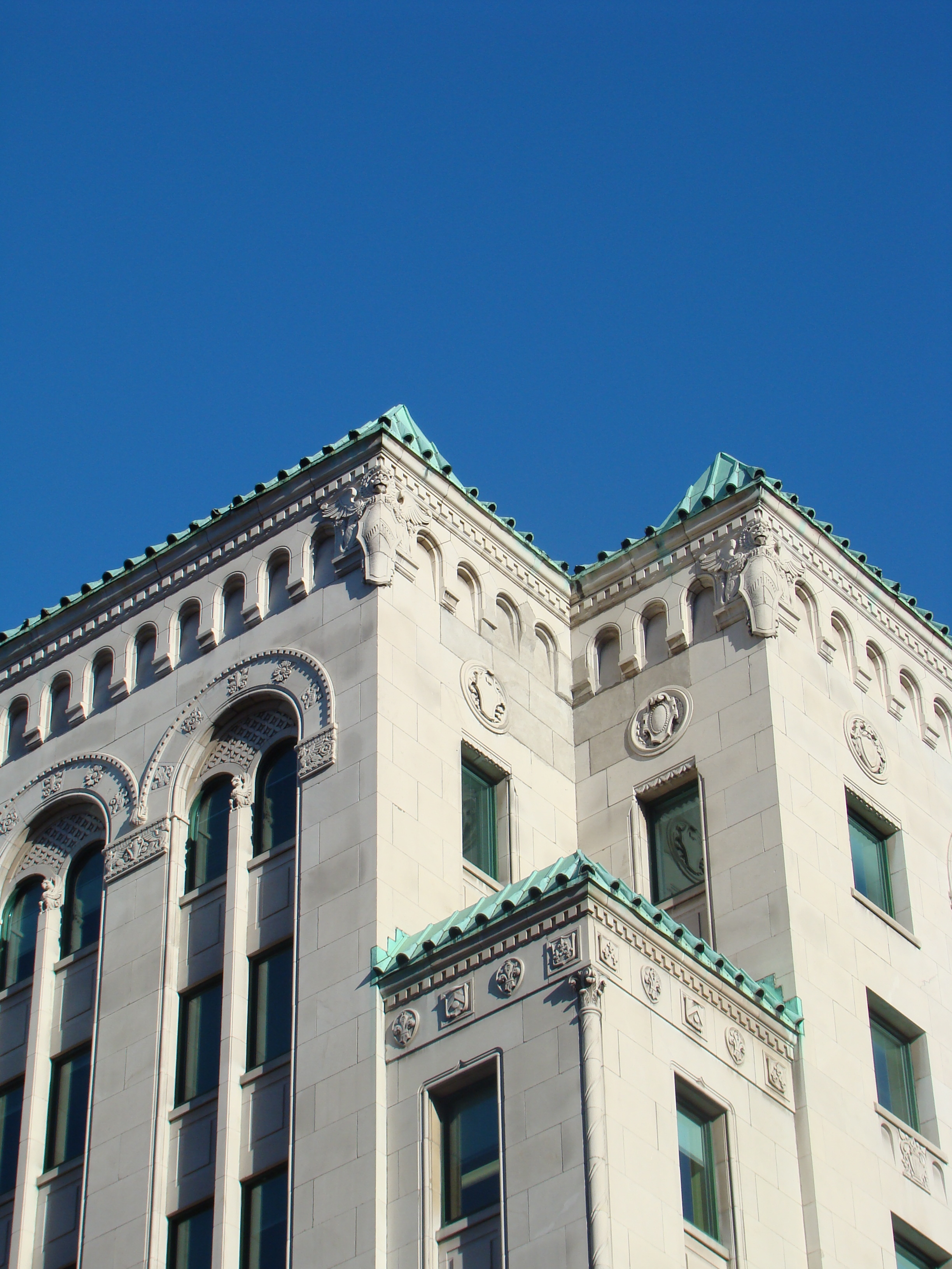 Detail of architecture of the Dominion Square Bldg